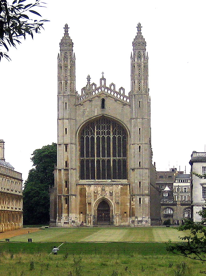 King's College Chapel, across Cam River, Cambridgeshire, England